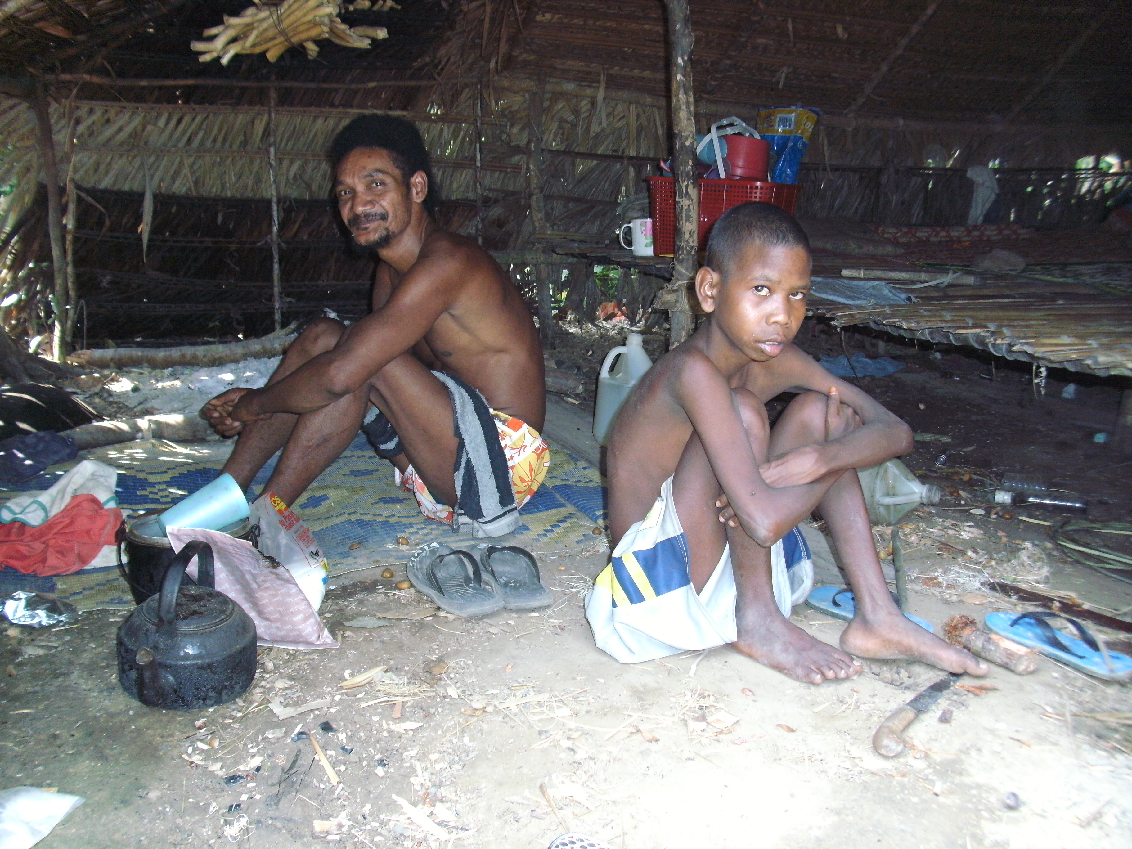 Malaysia